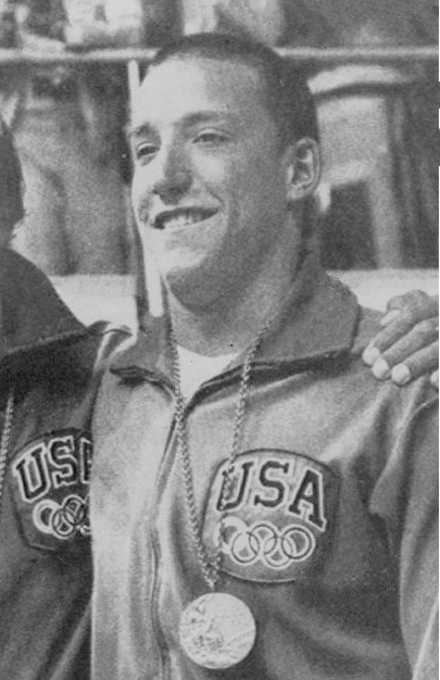 LG52 1972 Wire Photo MARK SPITZ GARY HALL ROBIN BACKHAUS Olympic Swimmers Medals